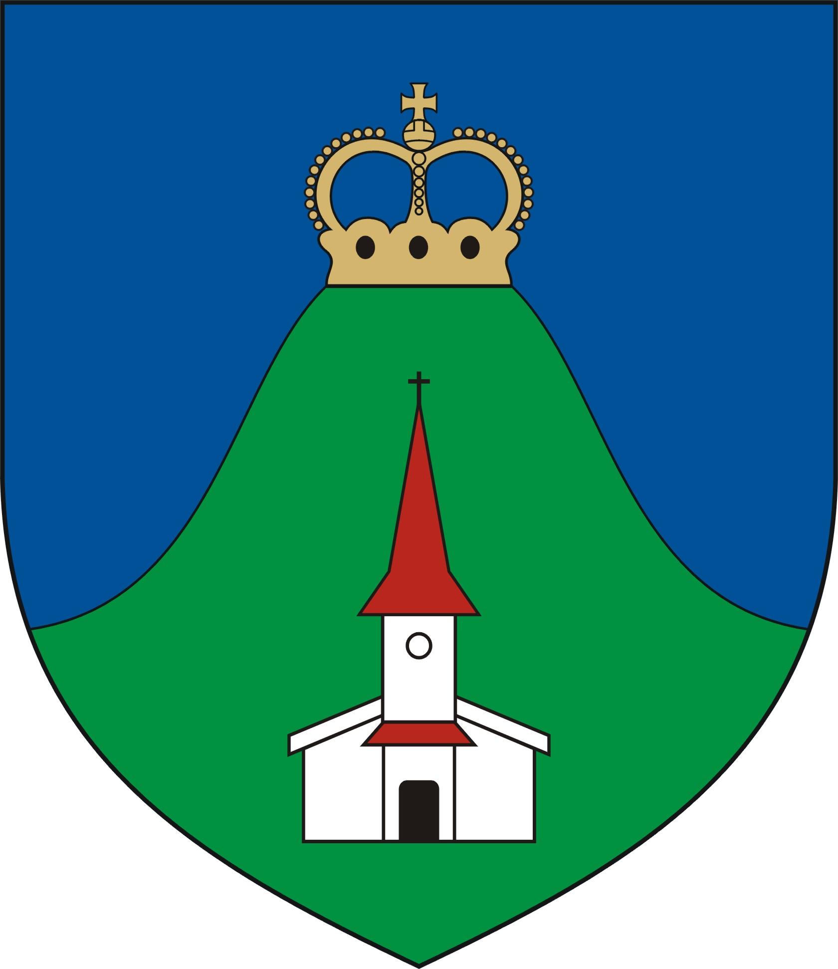 Coat of arms of Hegyesd, Hungary